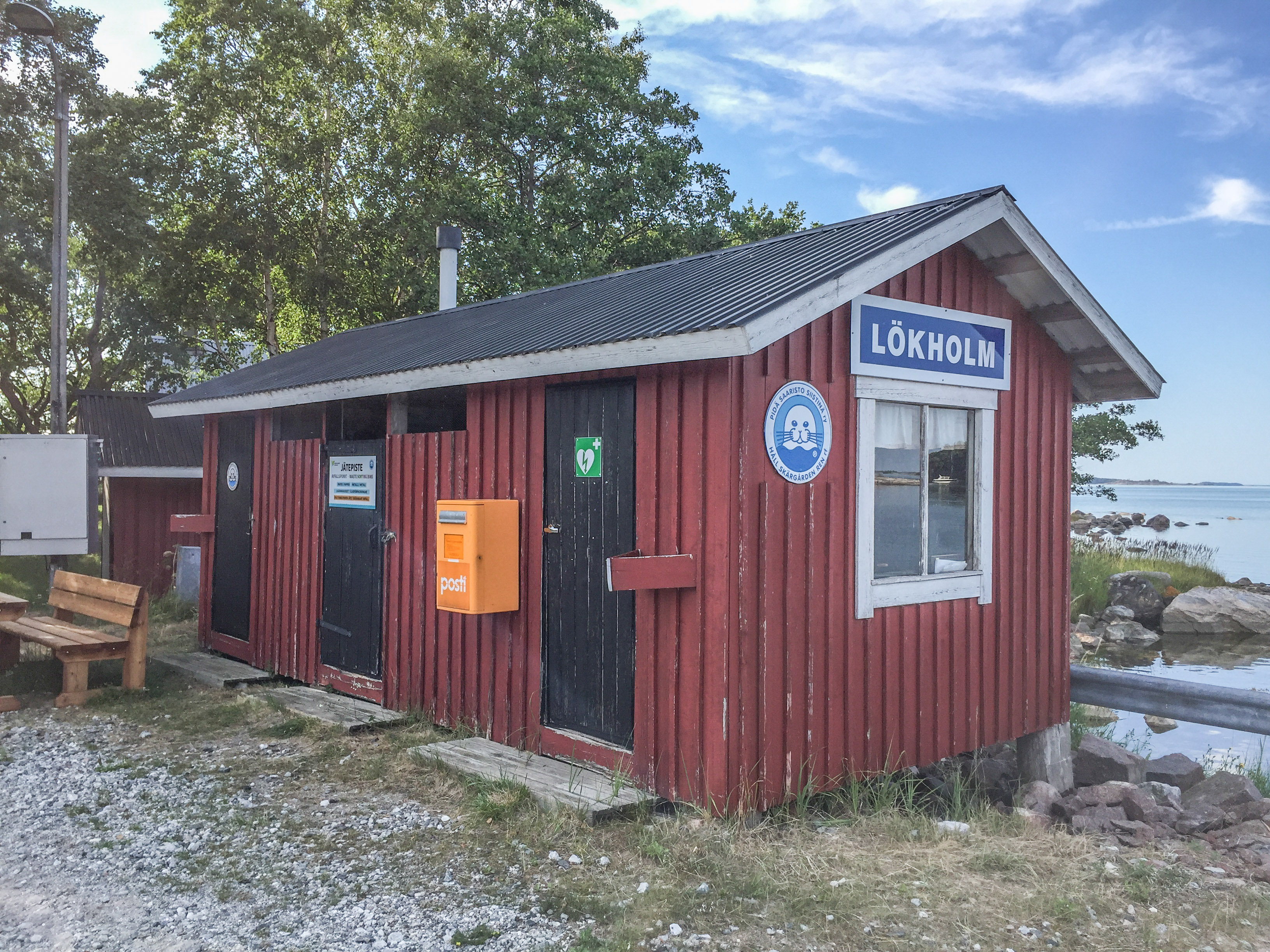 Service point at Lökholm ferry pier